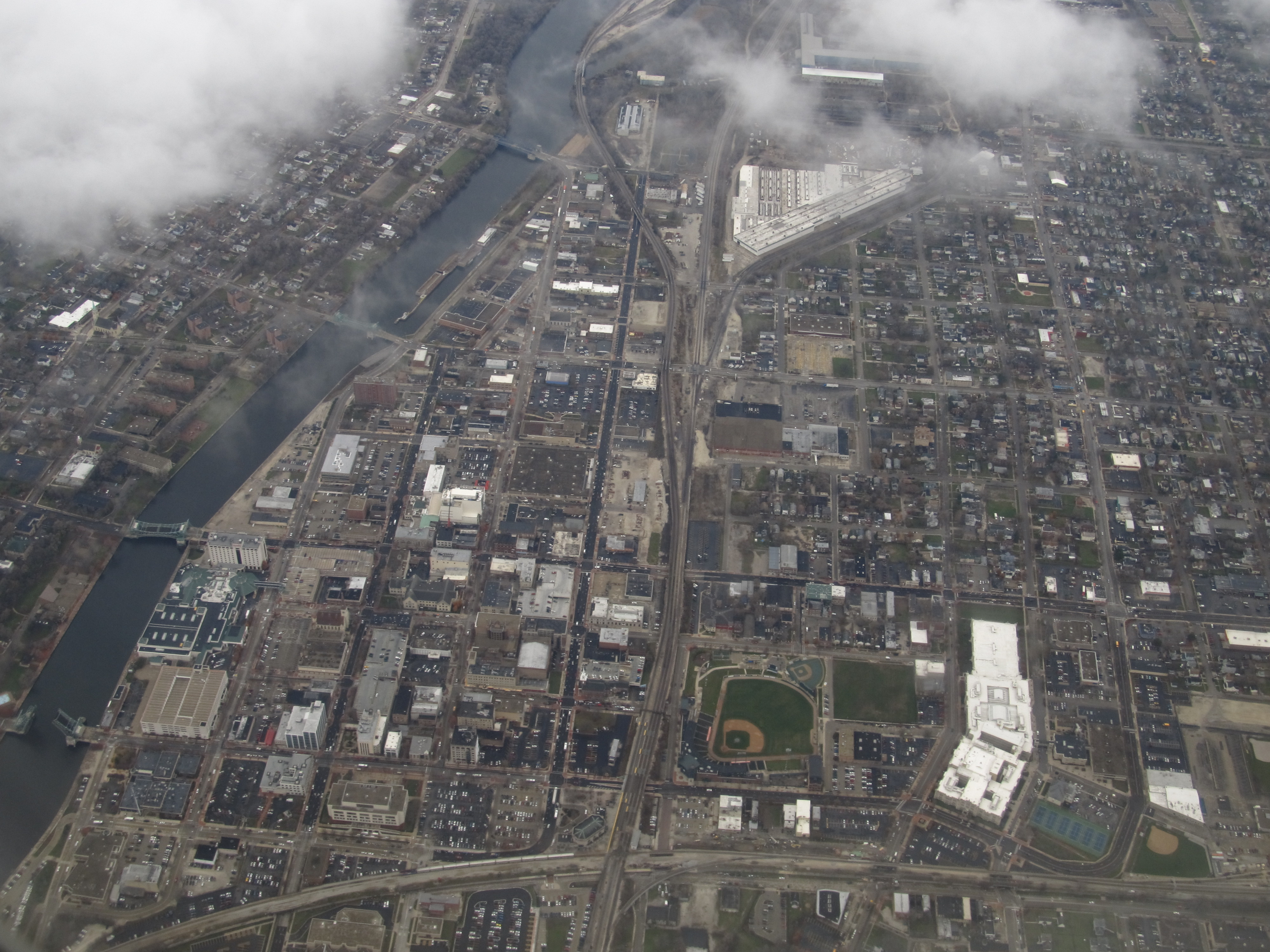 Joliet, Illinois Aerial View